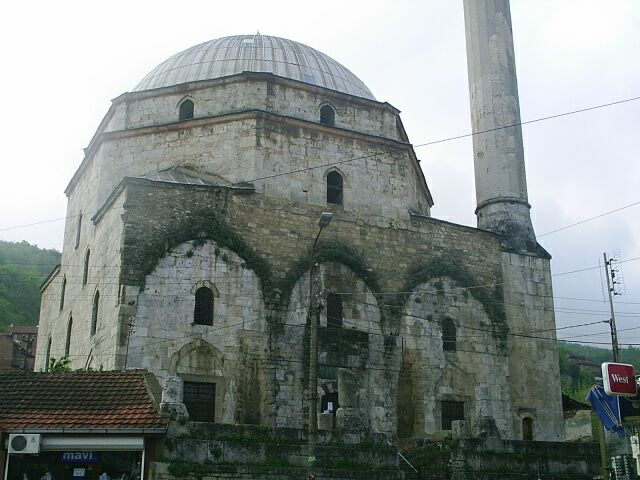 Town of Prizren in southern Kosovo